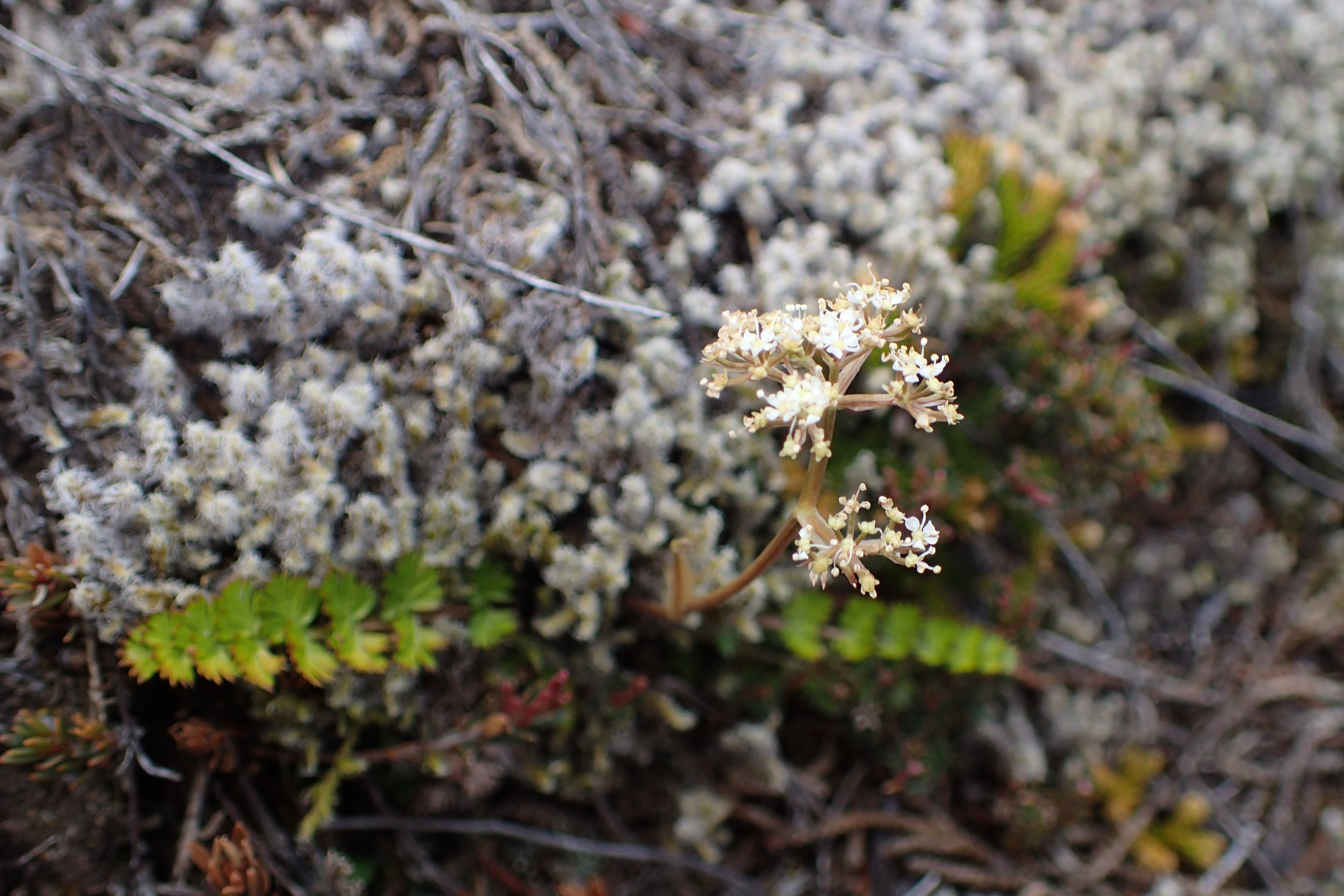 Anisotome aromatica near Tukino Rd on Rangipo Desert, Waikato (New Zealand)